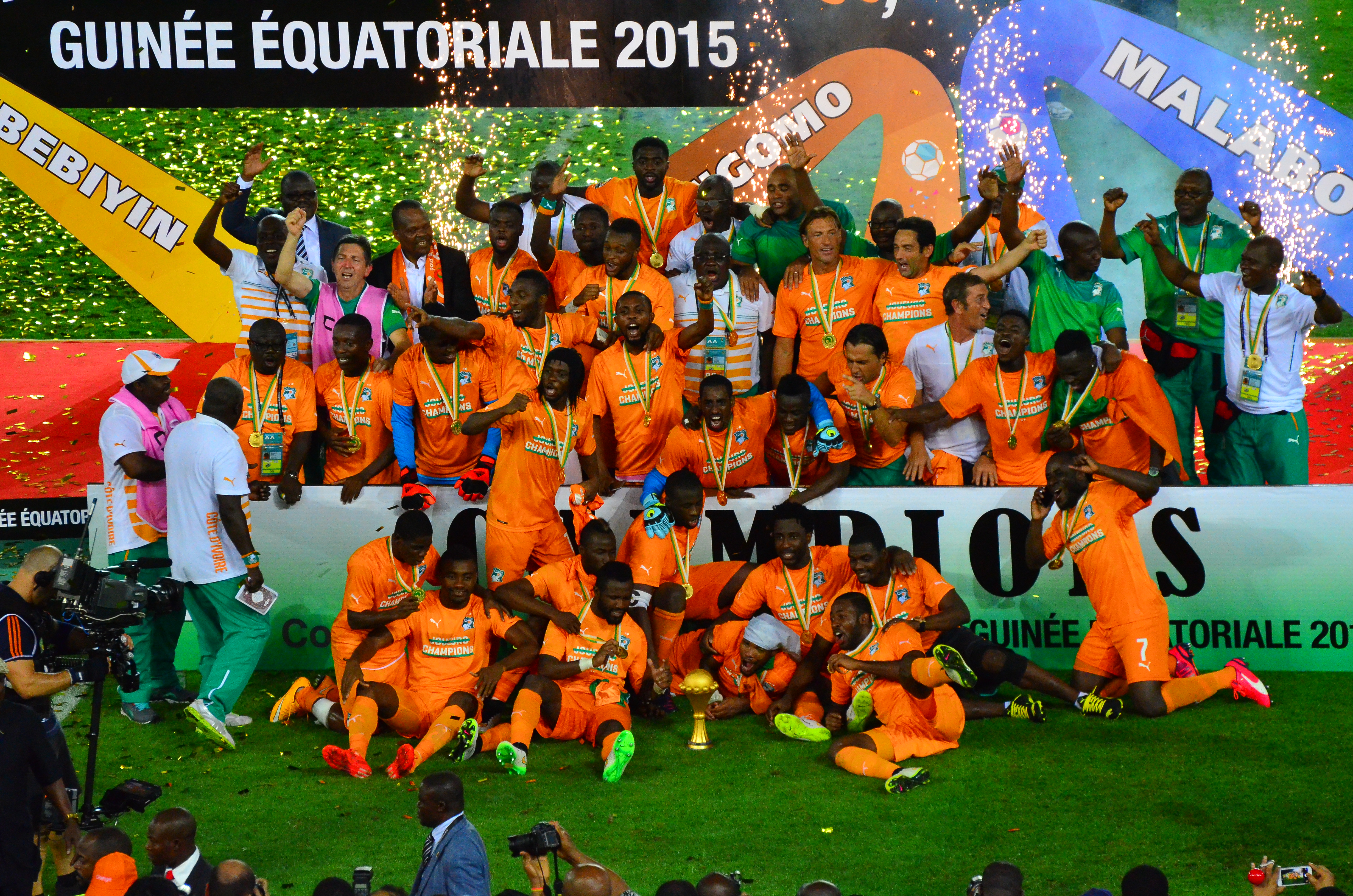 This is a picture of a soccer game (name of it is on file name).